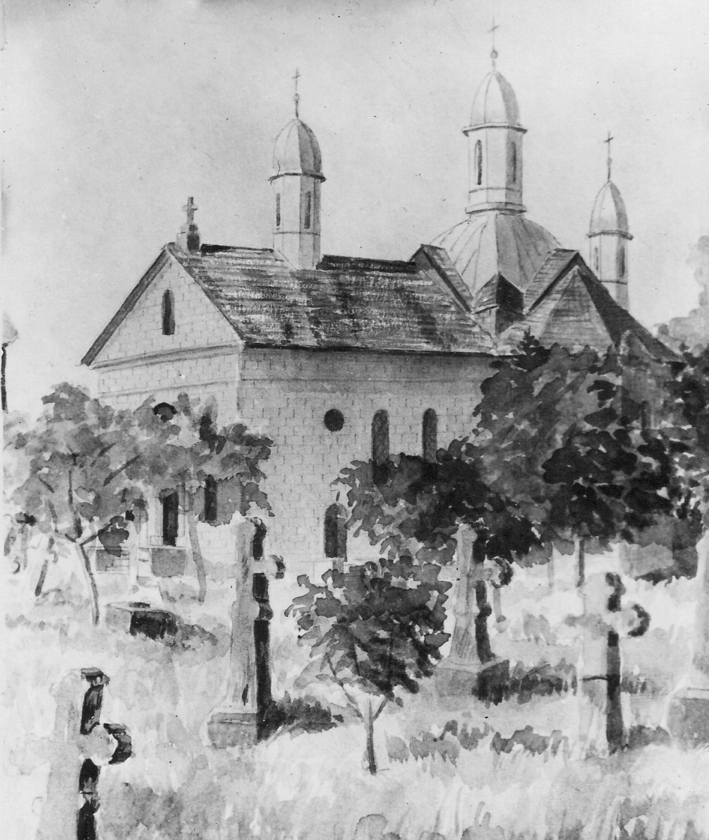 Church in Doroșăuți, Zastavna, Ukraine (image from the archive of the Metropolitan of Moldavia, 1936, free of copyright)